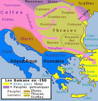 Historic map of Balkan peninsula, 150 b.c.